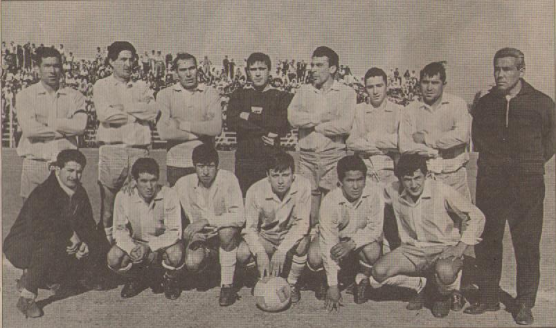 Alignment of the team "Racing de Córdoba" in 1967.